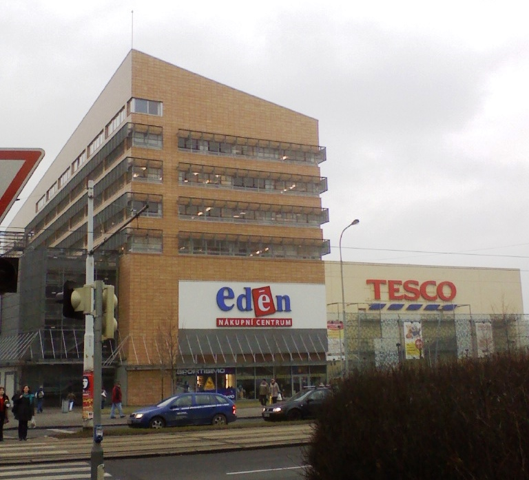 Headquarters of The Tesco Stores ČR, s.r.o. in Prague - Vršovice, The Czech Republic